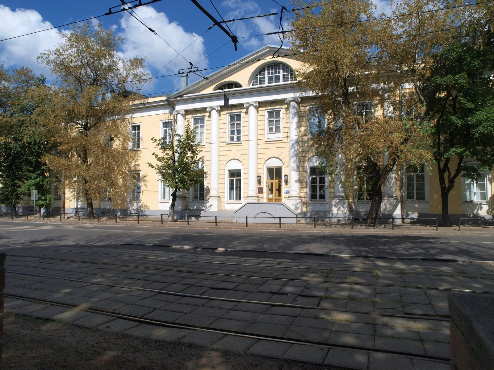 Historical core of the Burdenko Hospital in Lefortovo, 1830s.